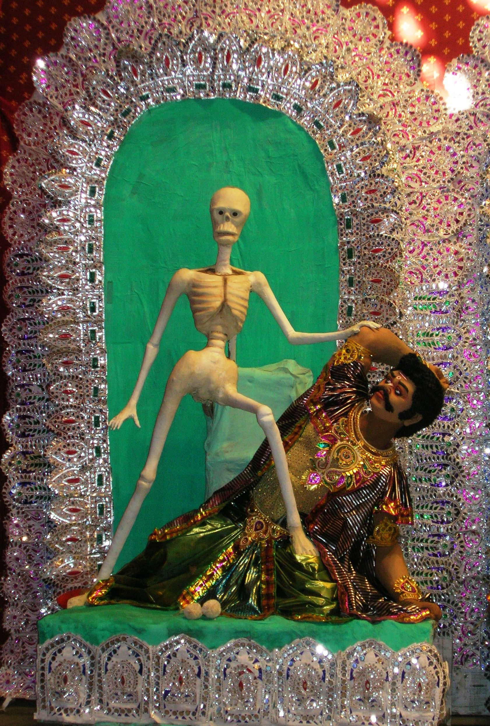 Bhut, at a Sarbojanin Kali Puja pandal at College Square, Kolkata, 2010.